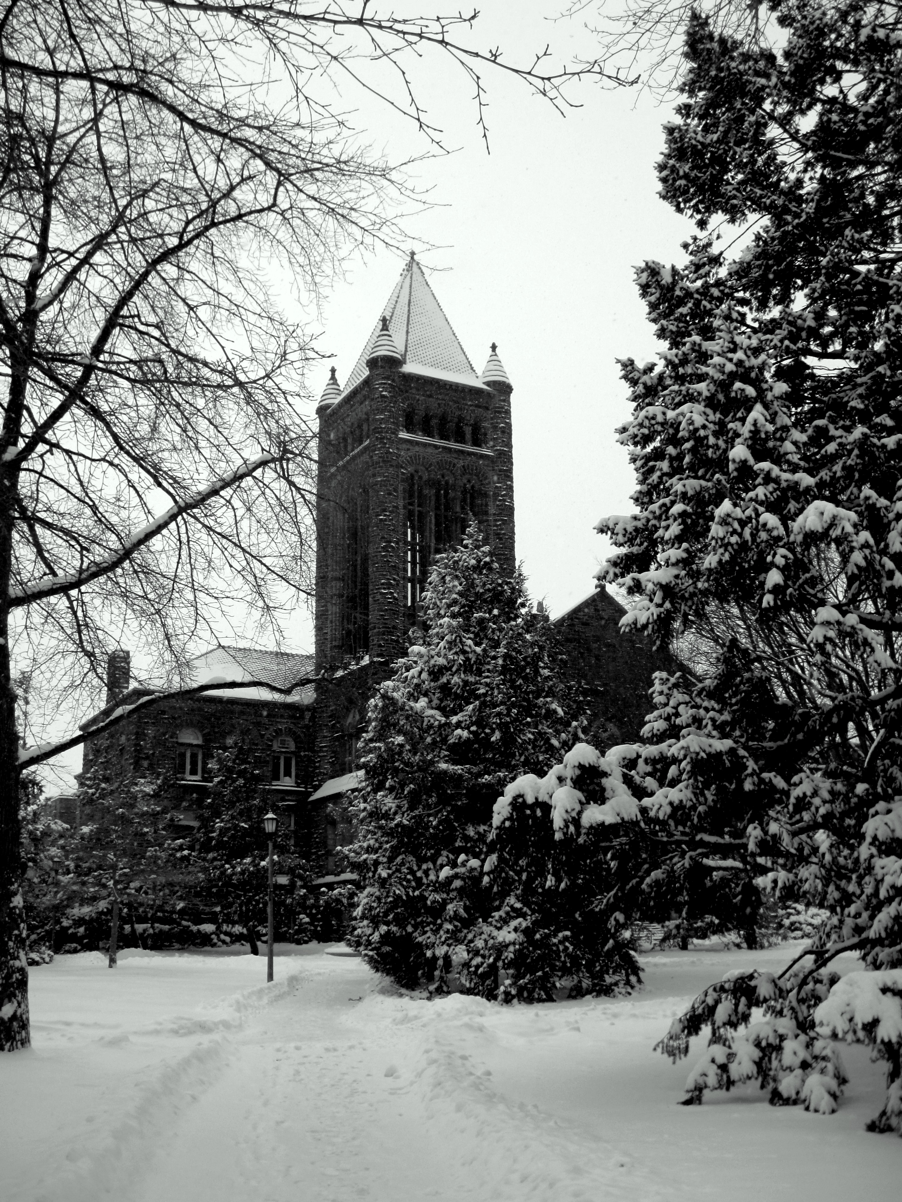 Altgeld Hall, University of Illinois, University of Illinois campus, corner of Wright and John Sts. Urbana